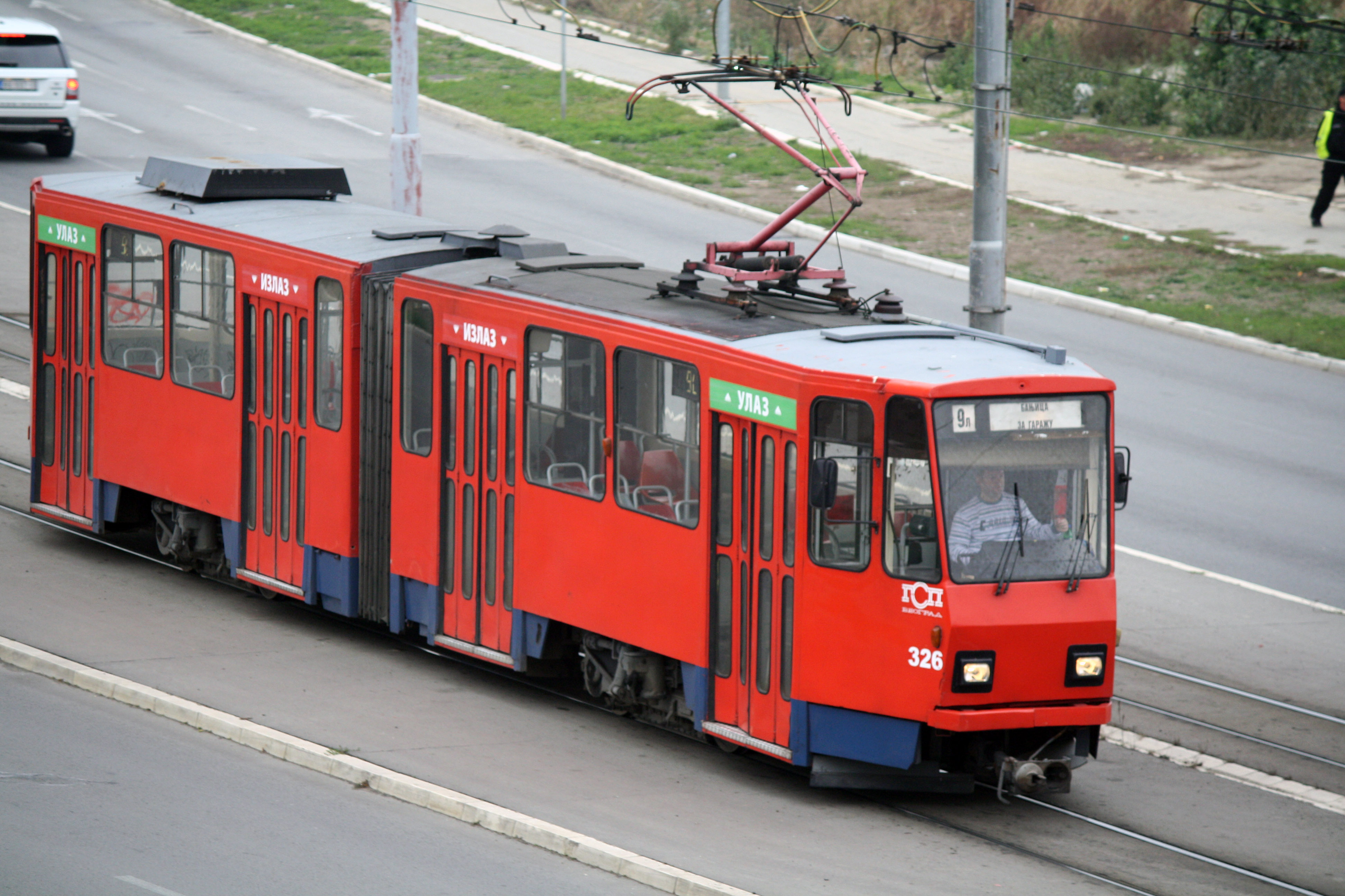 Tatra KT4 tram of GSP Beograd.